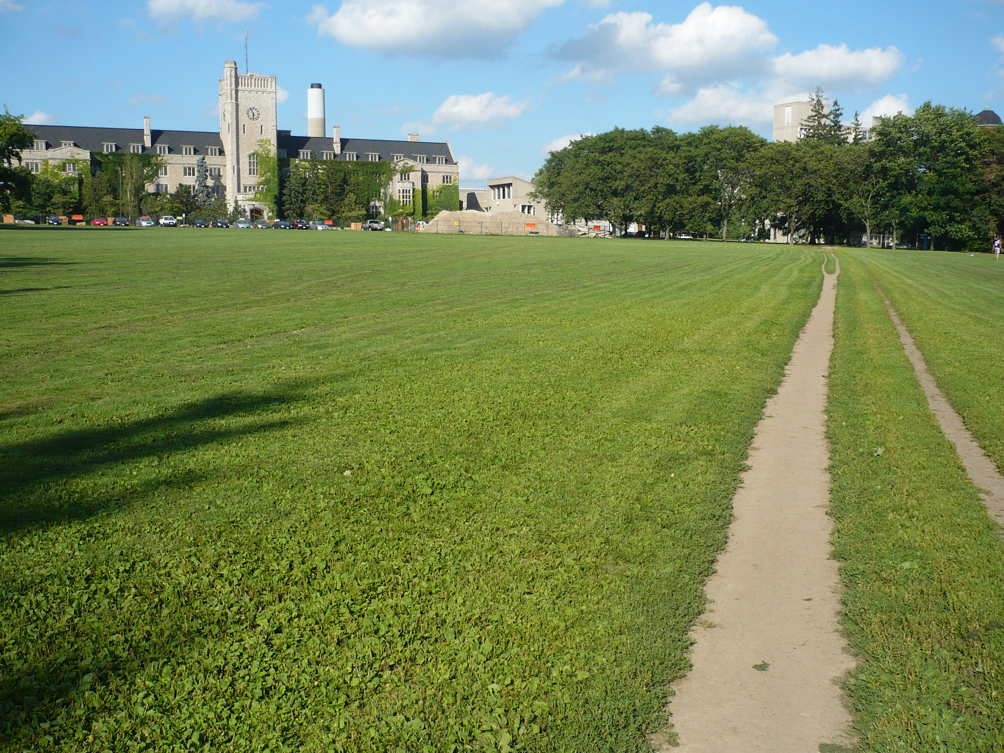 Field infront of Johnston Hall